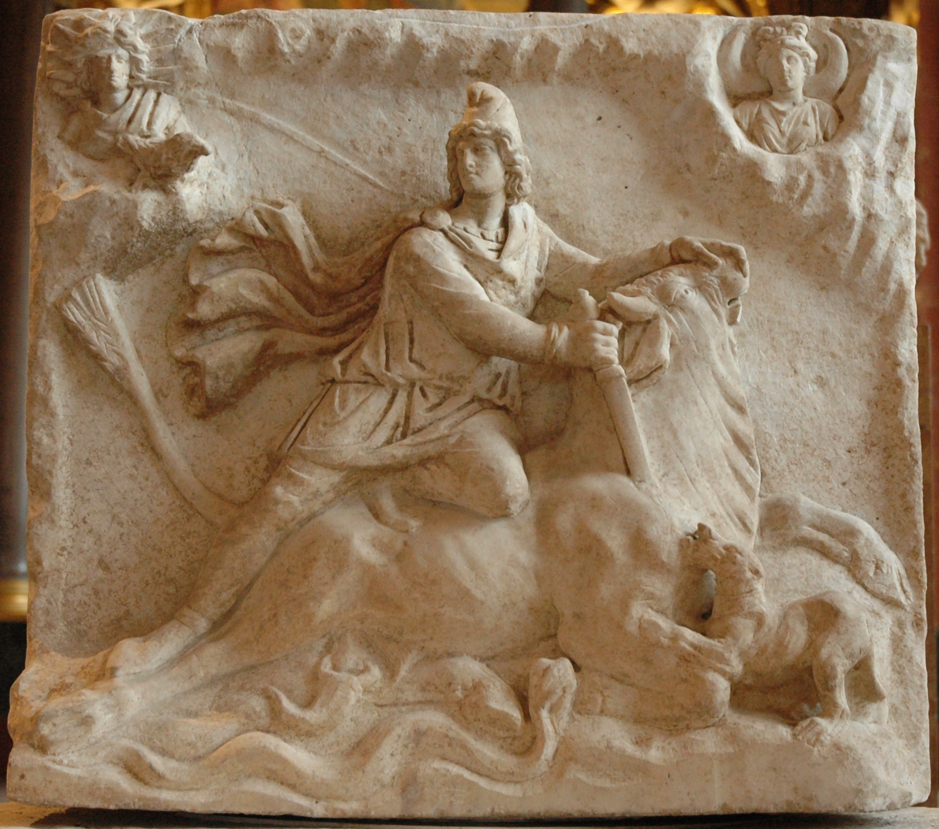 Mithras killing a sacred bull (tauroctony), side A of a two-faced Roman marble relief, ca. 2nd or 3rd century AD.